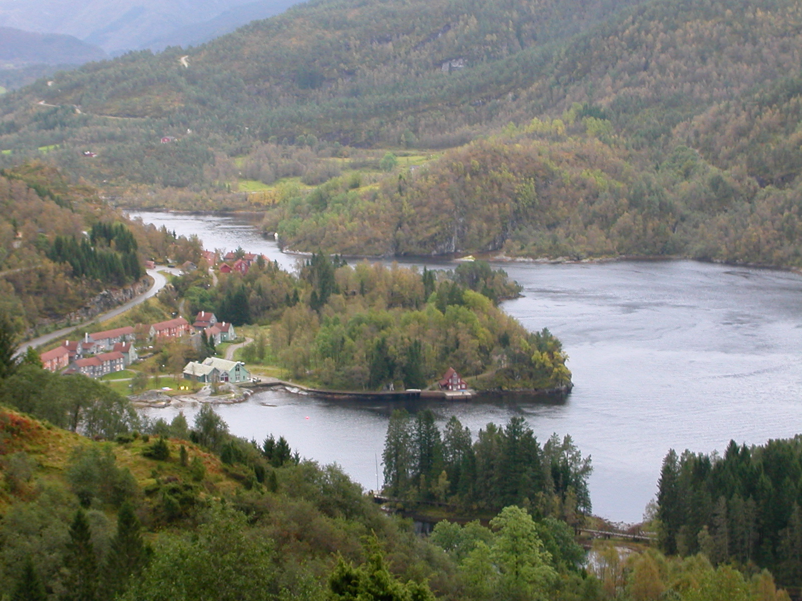 The Red Cross Nordic United World College